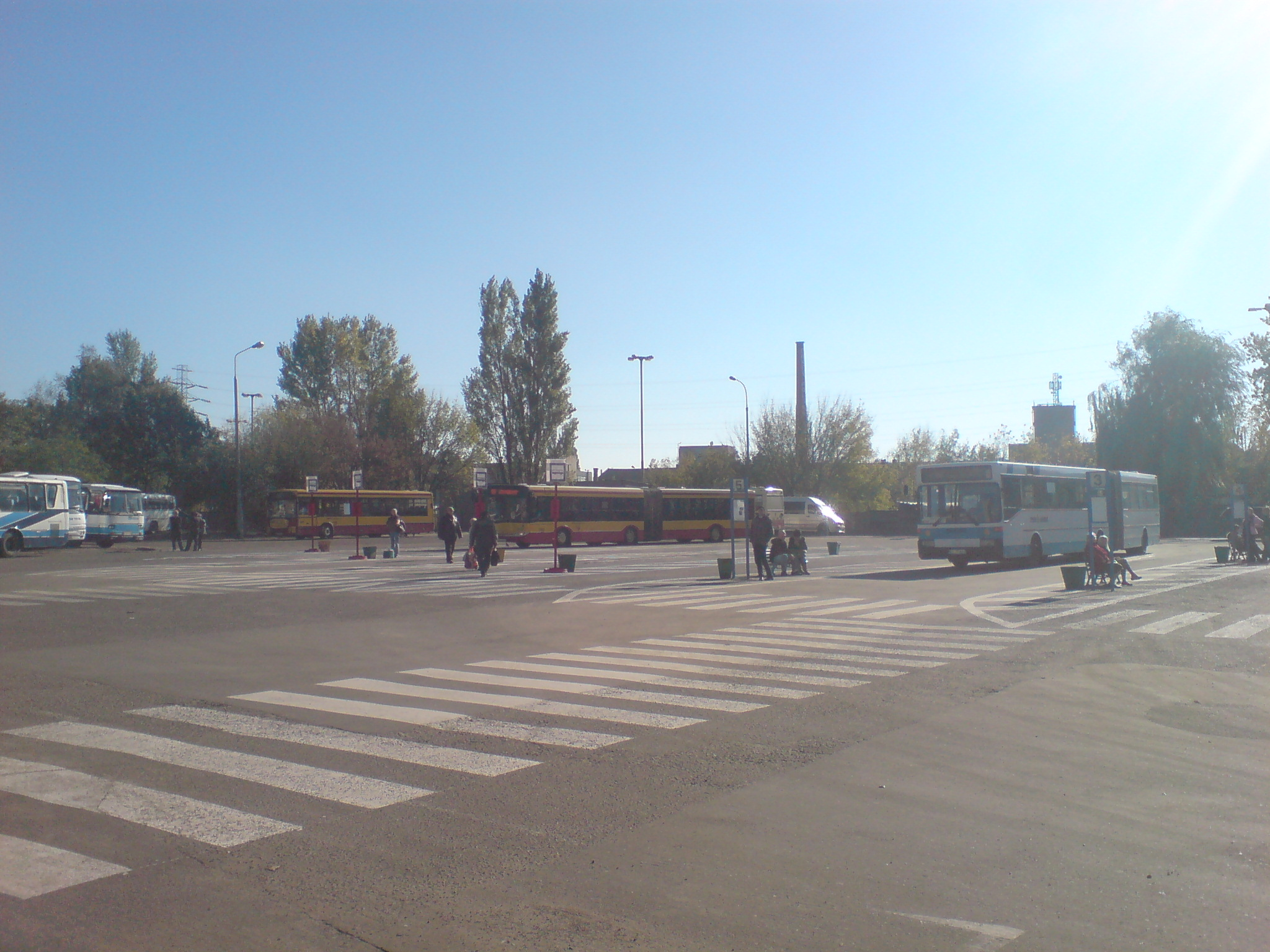 Central coach terminal in Łódź - temporary terminal, operating from 2011, October 16th to 2012, June 4th